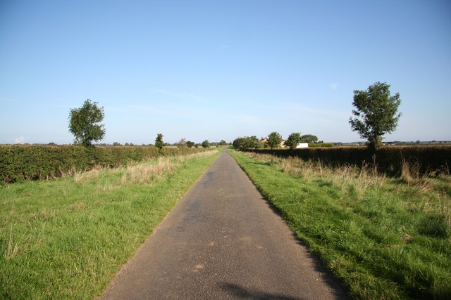 High Dike The course of High Dike or Ermine Street Roman Road on Coleby Heath